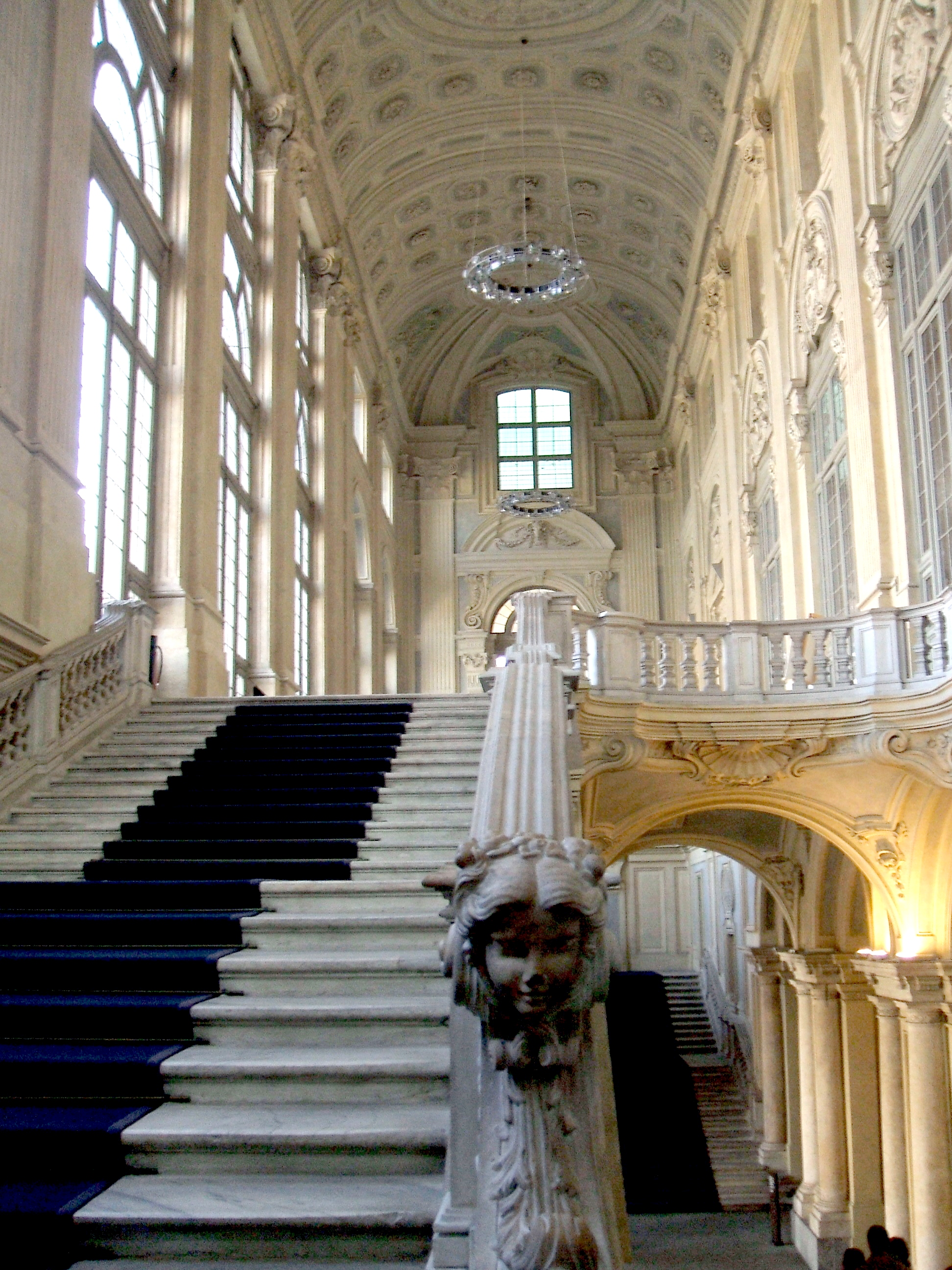 The baroque staircase, designed by Filippo Juvarra, at Palazzo Madama in Turin, Italy.